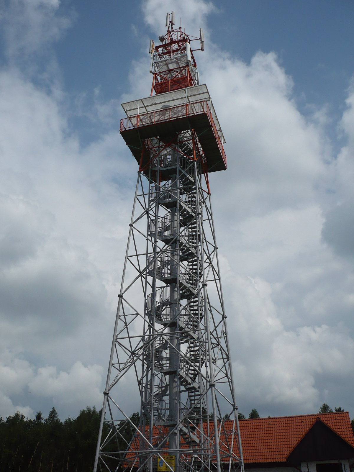 Observation Tower Chlum, near Hradec Kralove